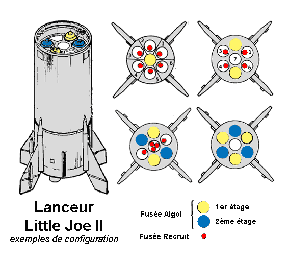 Little Joe II drawing